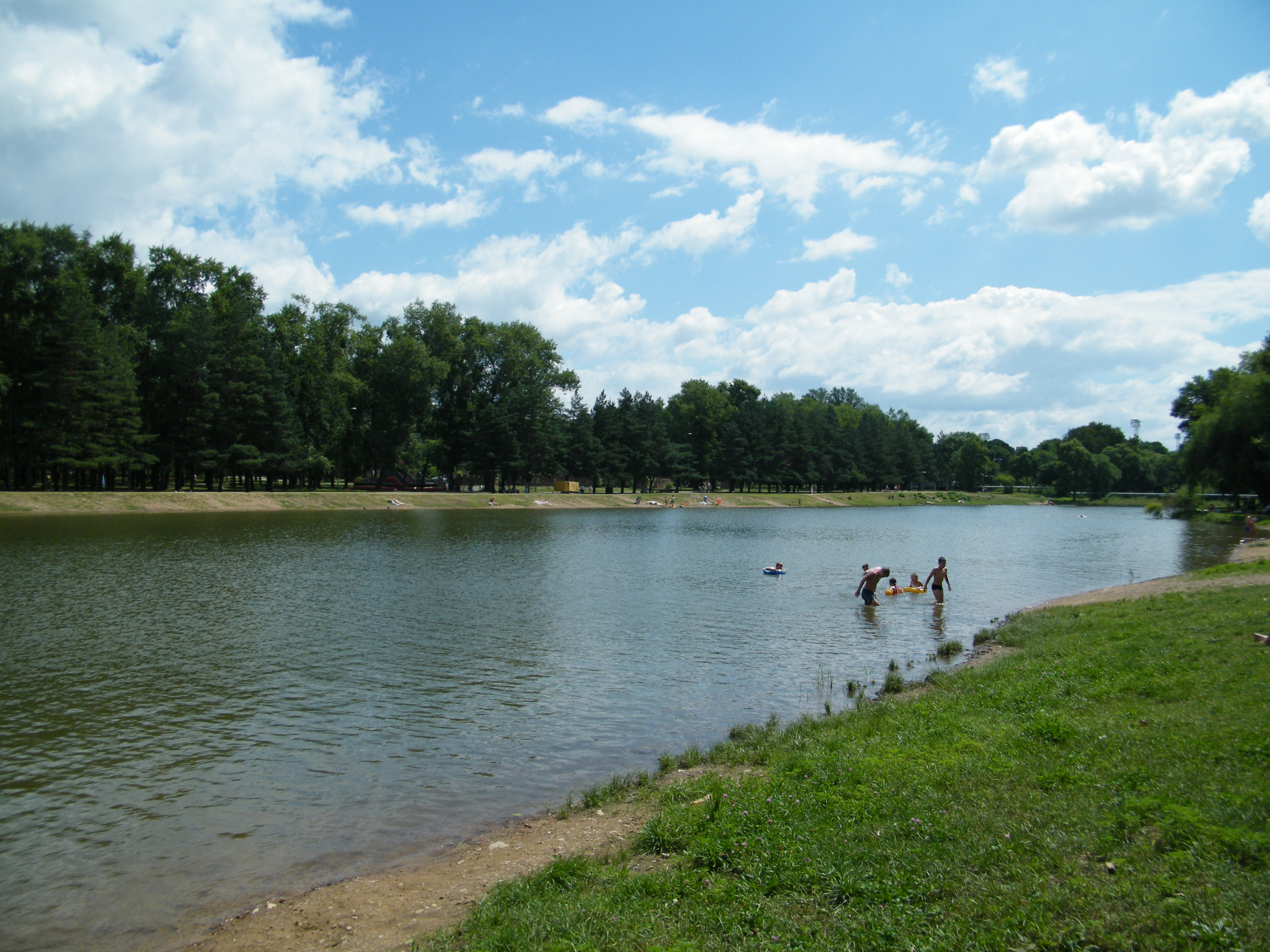 Арсеньев, пляж на реке Дачная